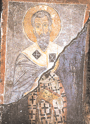 Saint_Arsenius_the_Great_Fresco_in_Saints_Cosma_and_Damian_Church_in_Kastoria.